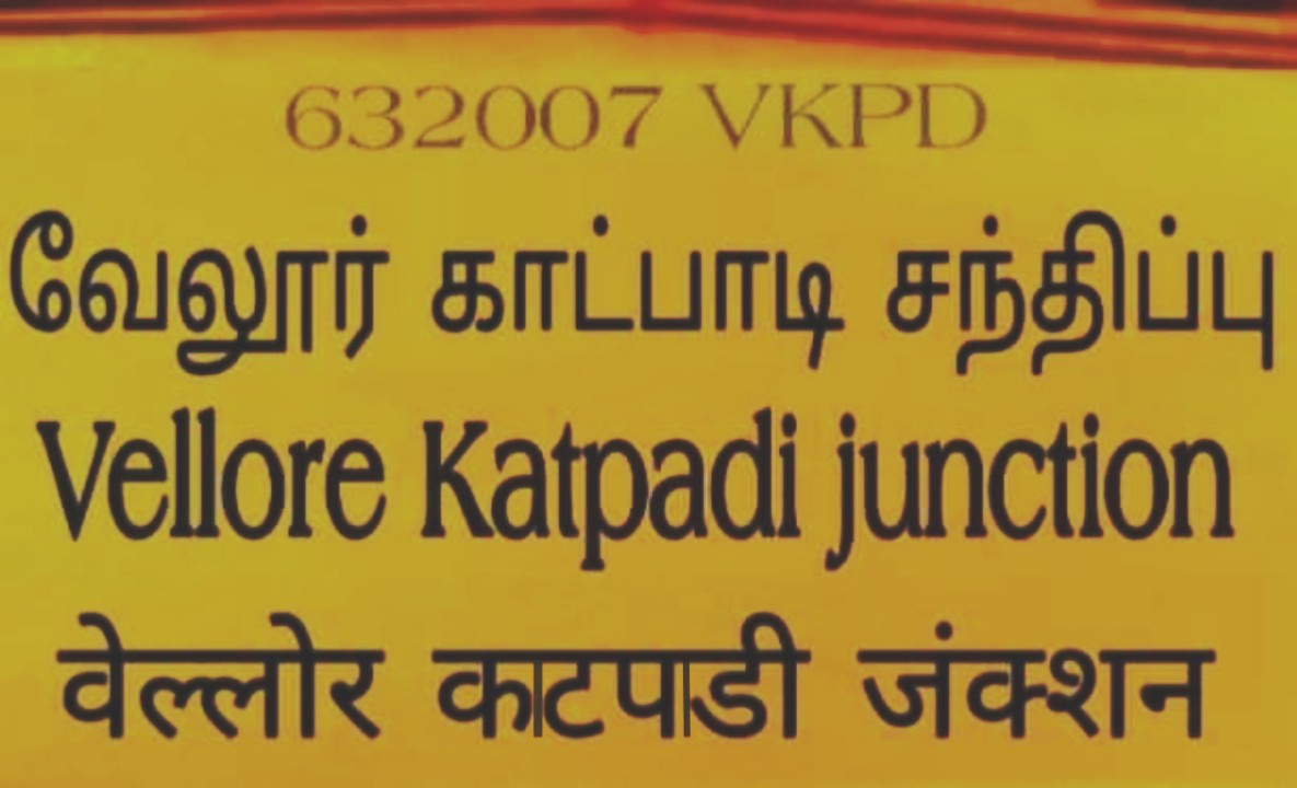 VelloreCity